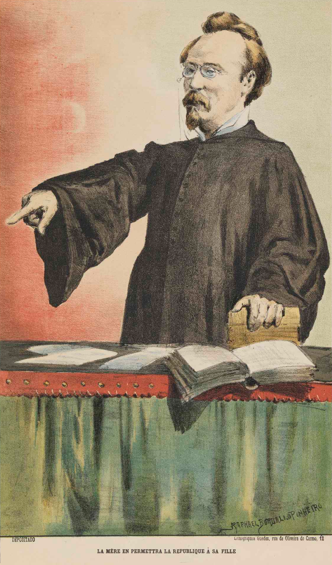 Caricature of Manuel de Arriaga by Rafael Bordalo Pinheiro, published in "Album das Glórias". The subtitle reads «LA MÈRE EN PERMETTRA LA REPUBLIQUE À SA FILLE».